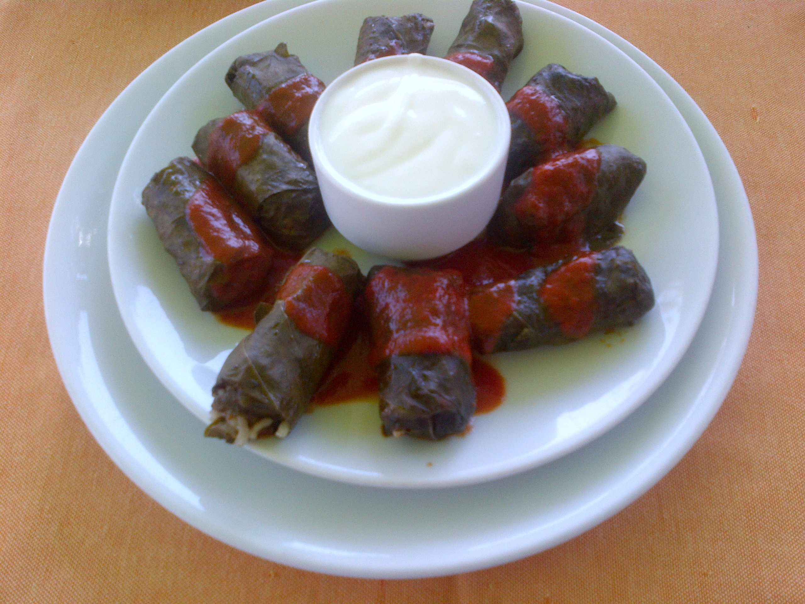 "Etli yaprak sarma" (ground beef filled vine leaves) and garlic yogurt, an indivisible couple of the Turkish cuisine.